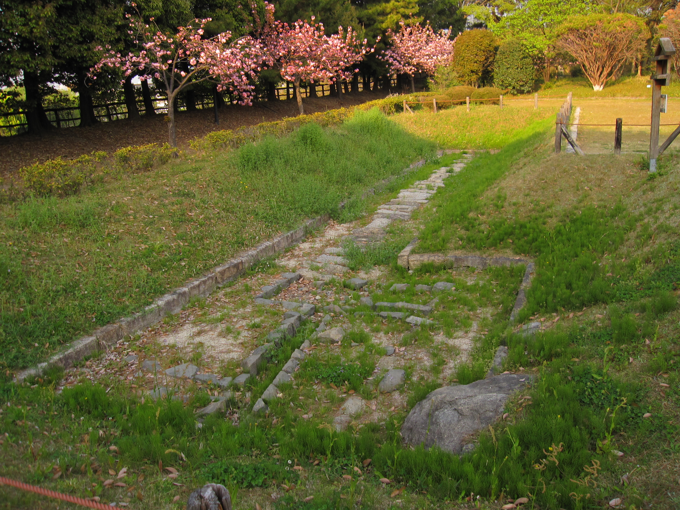 The remains of a drain located outside the garden depicted in Oshiro Oniwa Ezu, a historic drawing of the old castle garden, have been restored exactly as they were found in an excavation survey. According to the drawing, there was also a flower bed nearby this drain, which is thought to the remains of a stone culvert for channeling rainwater, as mentioned in the "Kinjo Onkoroku" document. Even today rainwater is channeled to the moat through this drain. The stone materials of the culvert include granite for the lid and hard sandstone for the sides.